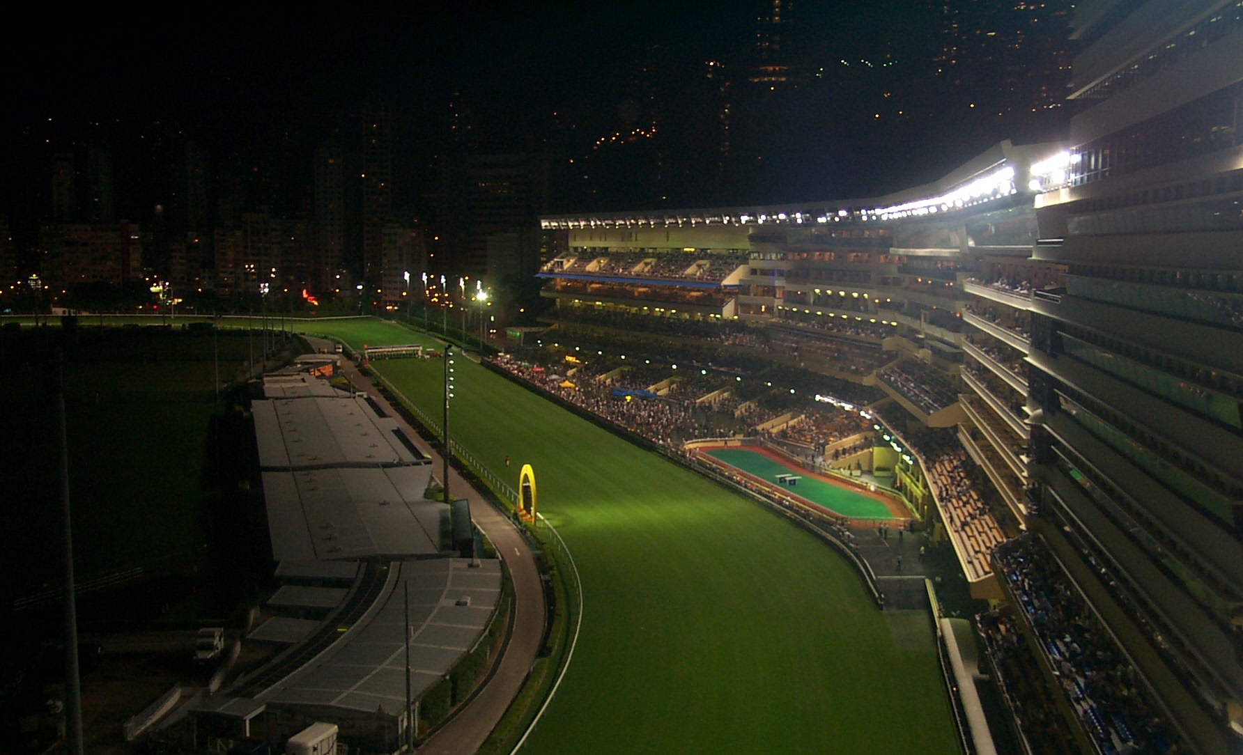 Originally tagged with "Hongkongjockeyclub". I'm assuming this is Happy Valley Racecourse rather than Sha Tin since it's dark.